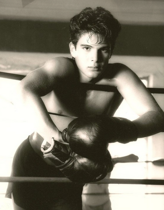 George Perez in Elton John's video clip, A word in Spanish.